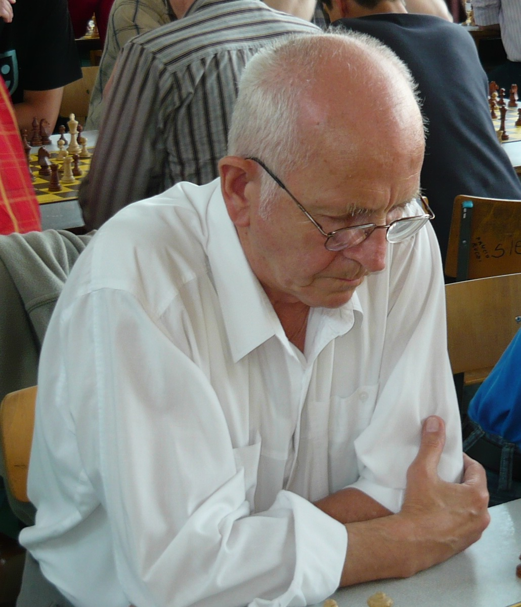 Janusz Woda Poland, Bydgoszcz 2009.